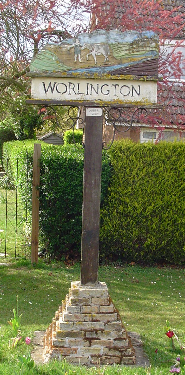 Signpost in Worlington